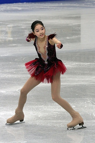 2012 World Junior LSP Li Zijun